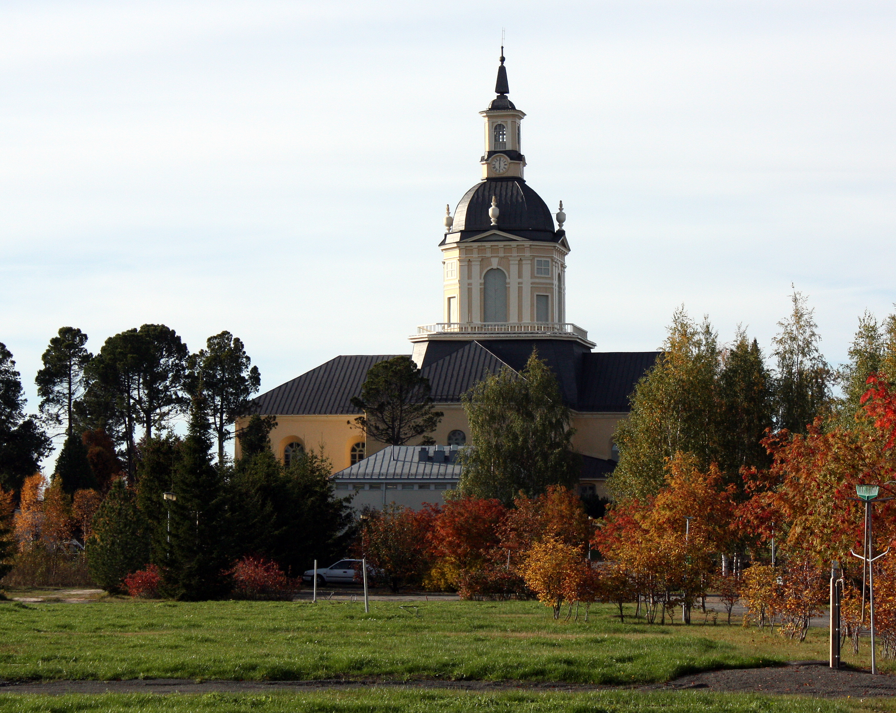 Alatornio church.